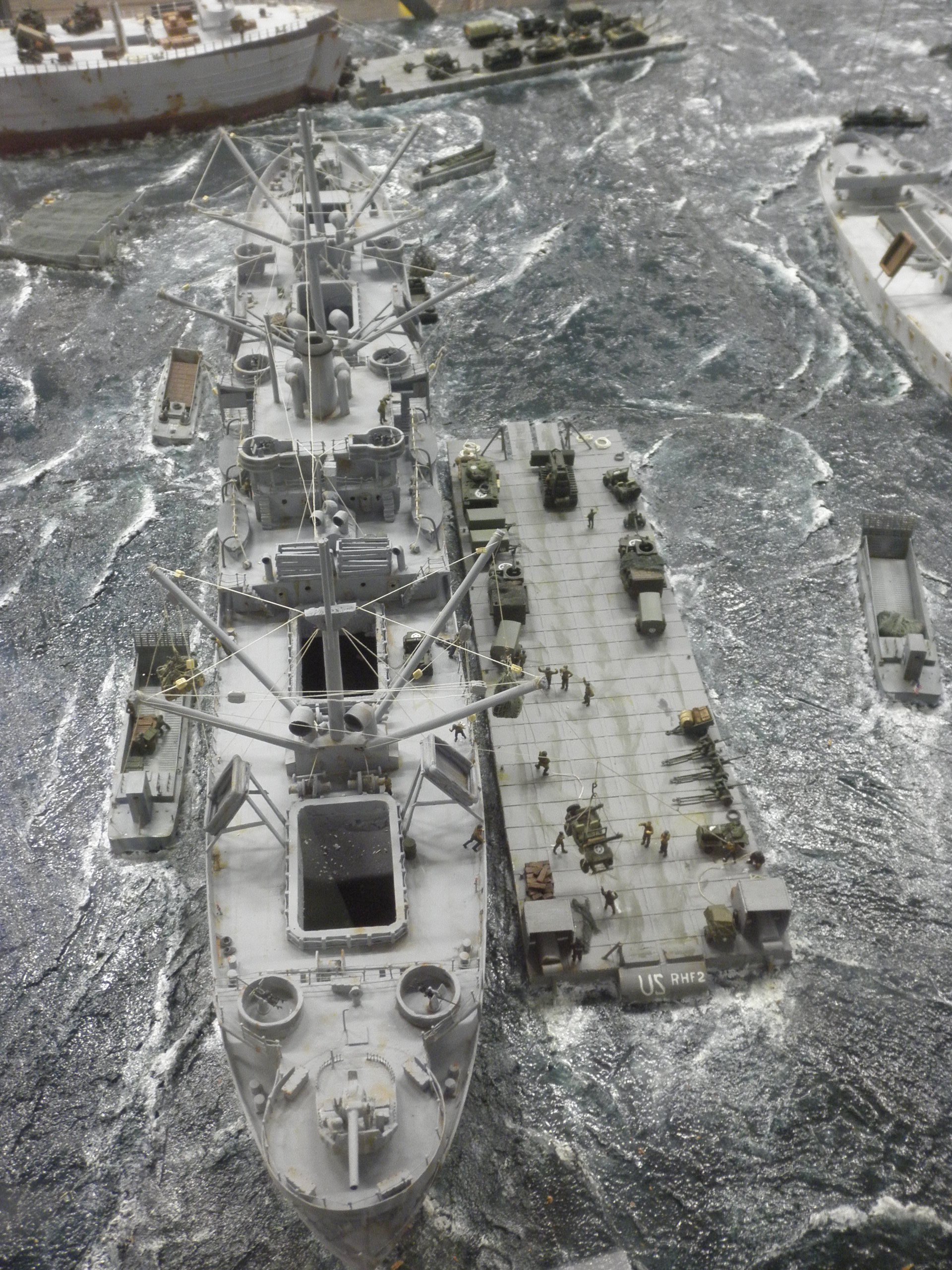 Model of the Liberty-ship SS Jeremiah O'Brien off the coast of Normandy, France, in June 1944 at the San Francisco Maritime Park.